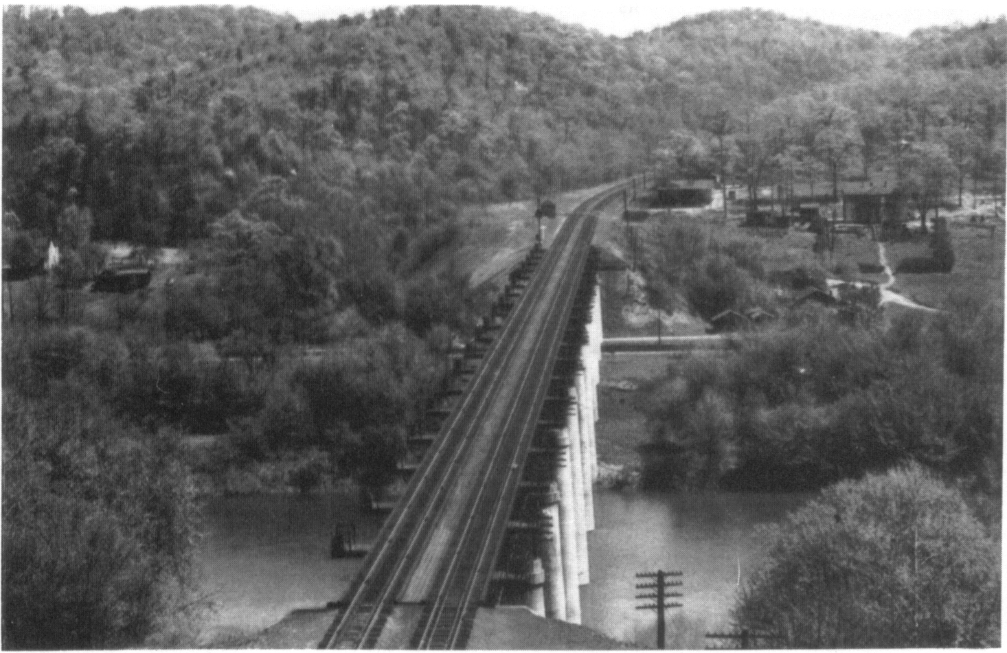 View of the Magnolia Cutoff Bridge crossing the Potomac River near Magnolia, West Virginia. Built c. 1913 by the Baltimore and Ohio Railroad. Magnolia Photo credit: the Baltimore & Ohio Historical Society (BORHS)